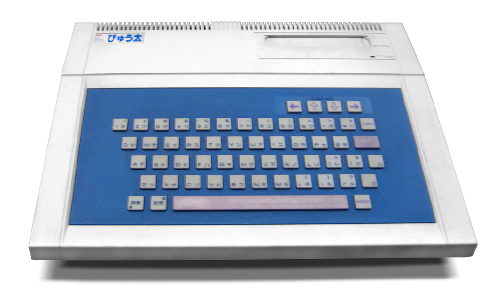 Tomy Pyuta learning computer (also known as Tomy Tutor and Grandstand Tutor). Japanese version.